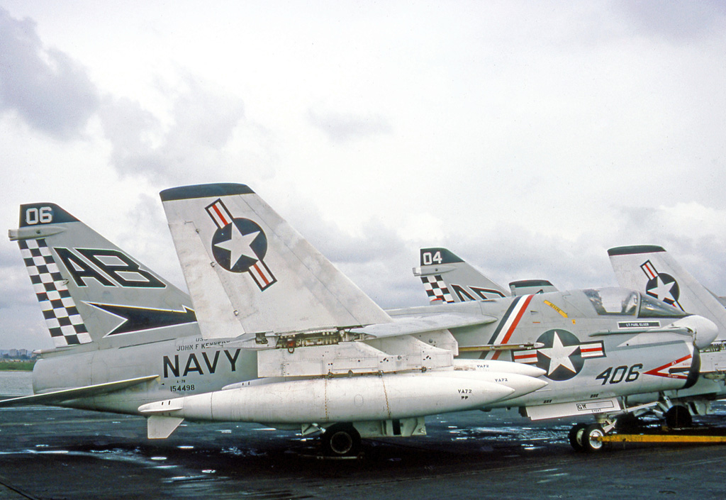 A U.S. Navy Ling Temco-Vought A-7B-3-CV Corsair II (BuNo 154498) of VA-72 "Blue Hawks" aboard the aircraft carrier USS John F. Kennedy (CV-67) in 1976.